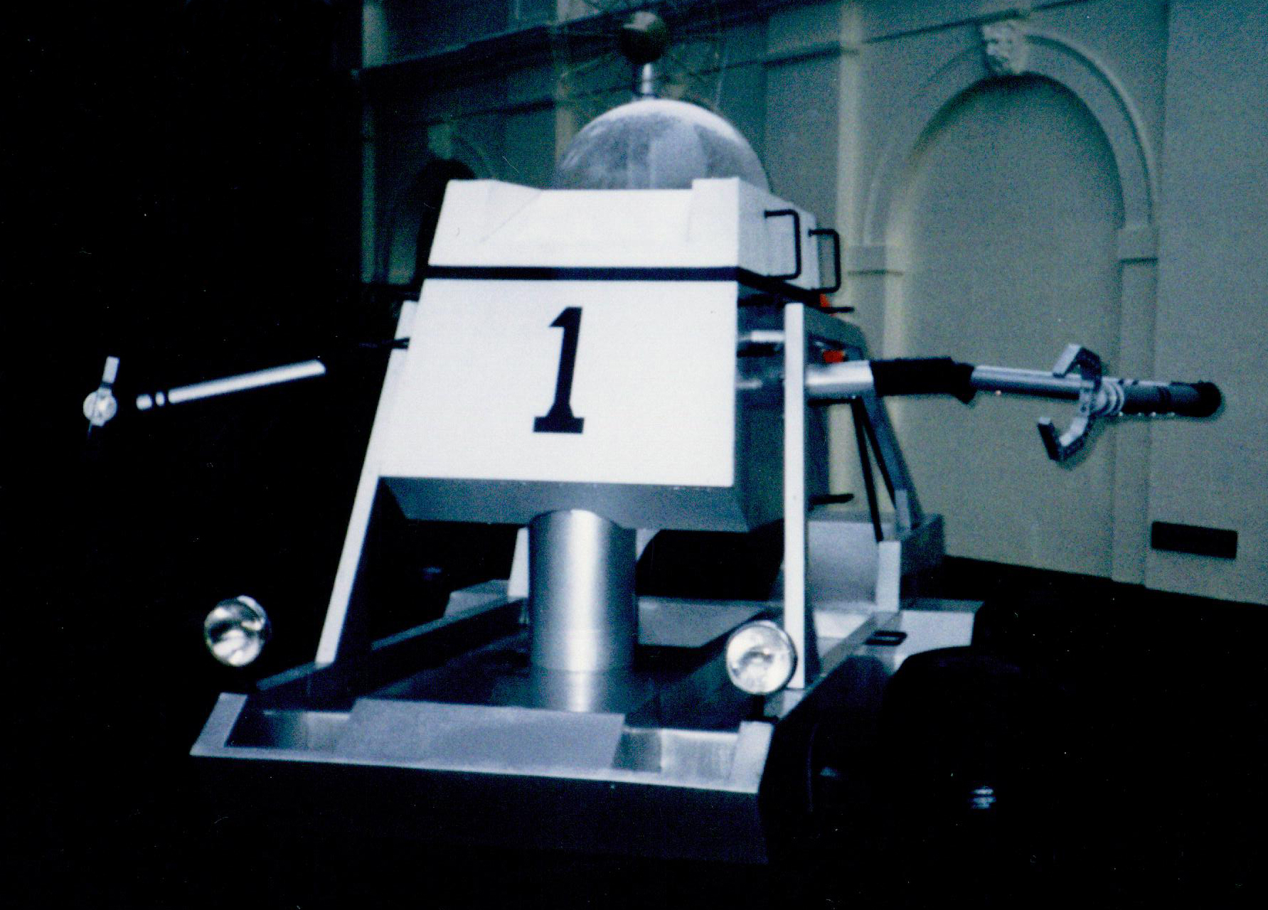 This photo, which features the Moonbuggy from the James Bond movie Diamonds Are Forever, was taken during a tour of Pinewood Studios outside of London, in the summer of 1992. Photographer: Lennart Guldbrandsson